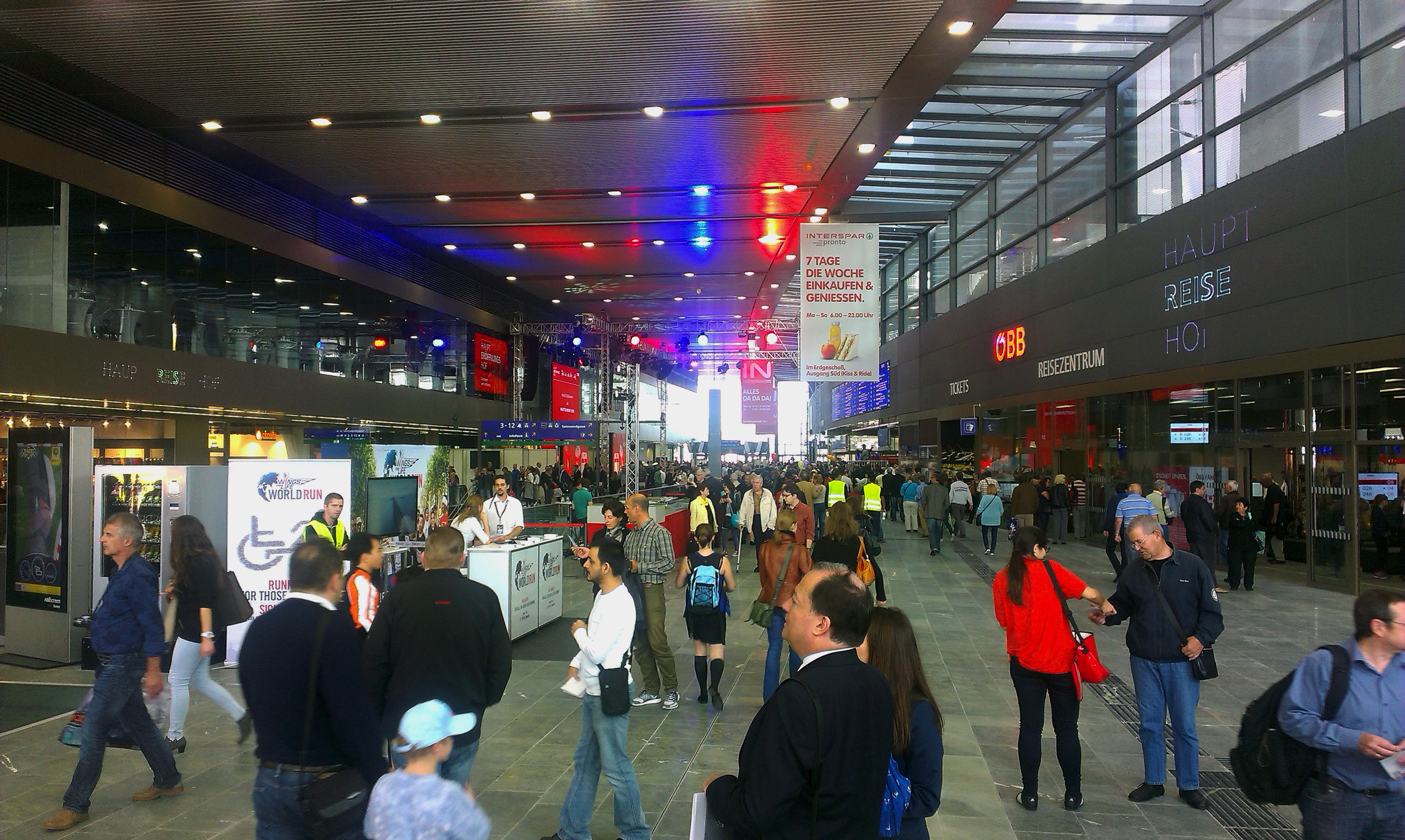 Main hall of Vienna main train station on the day of the oficial opening (10/10/2014).